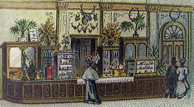 Third-class waiting room in the railway station in Nordstemmen about 1900.